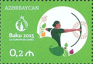 Baku 2015. First European Games.(2nd edition) N 1214 - 20 qapik – Archery